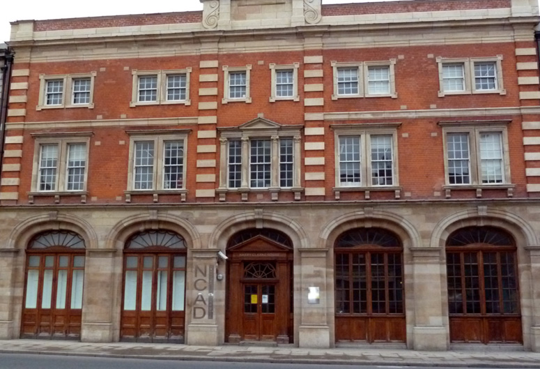 Photograph taken by me of the National College of Art and Design (formerly the Fire Brigade station), Thomas Street, Dublin, in January 2011.